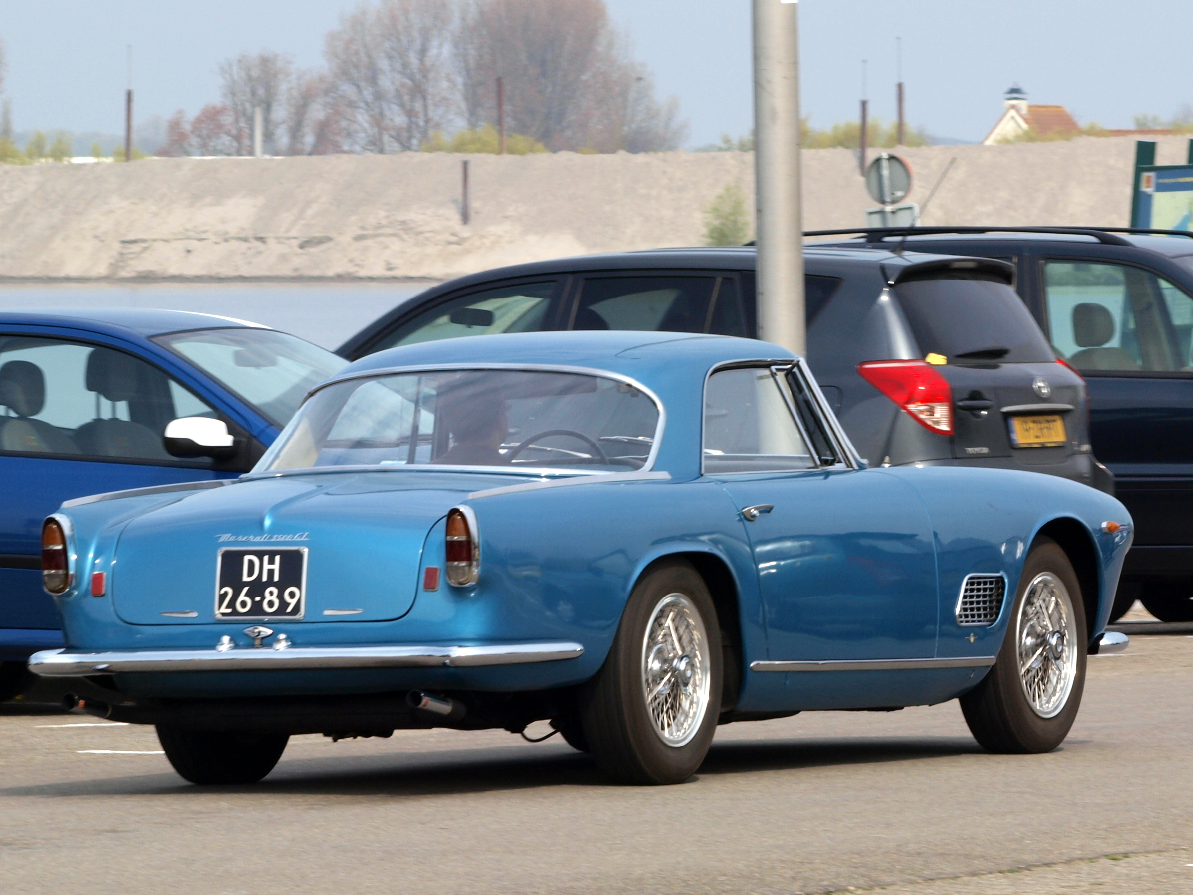 Cars and motorcycles photographed at the Voorschotense Oldtimer Vereniging Show, Valkenburgse meer, The Netherlands. OLYMPUS DIGITAL CAMERA